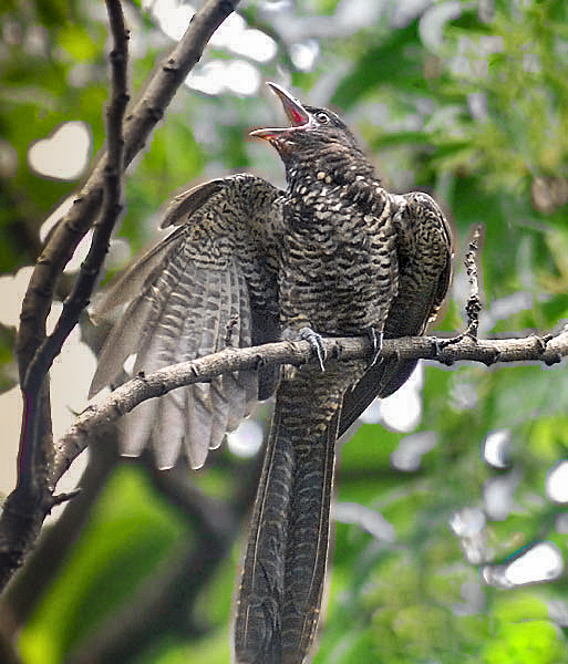 Asian Koel Eudynamys scolopacea in Kolkata, West Bengal, India.